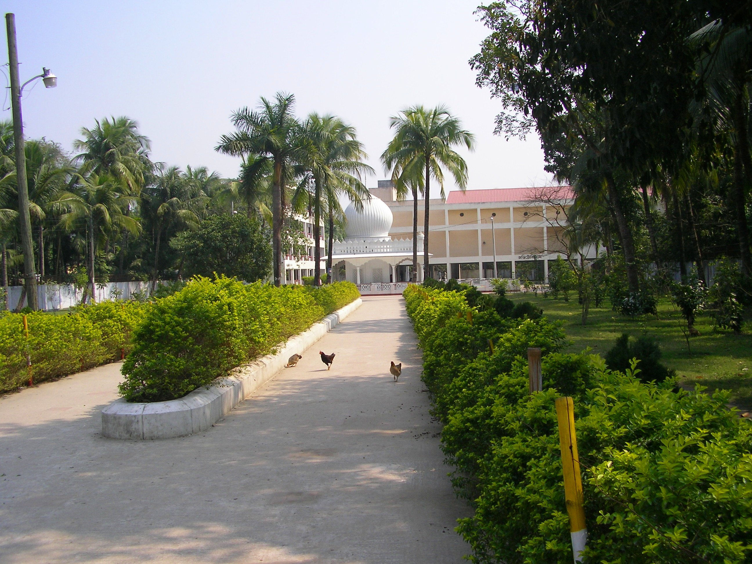 Tomb of Lalon Shah